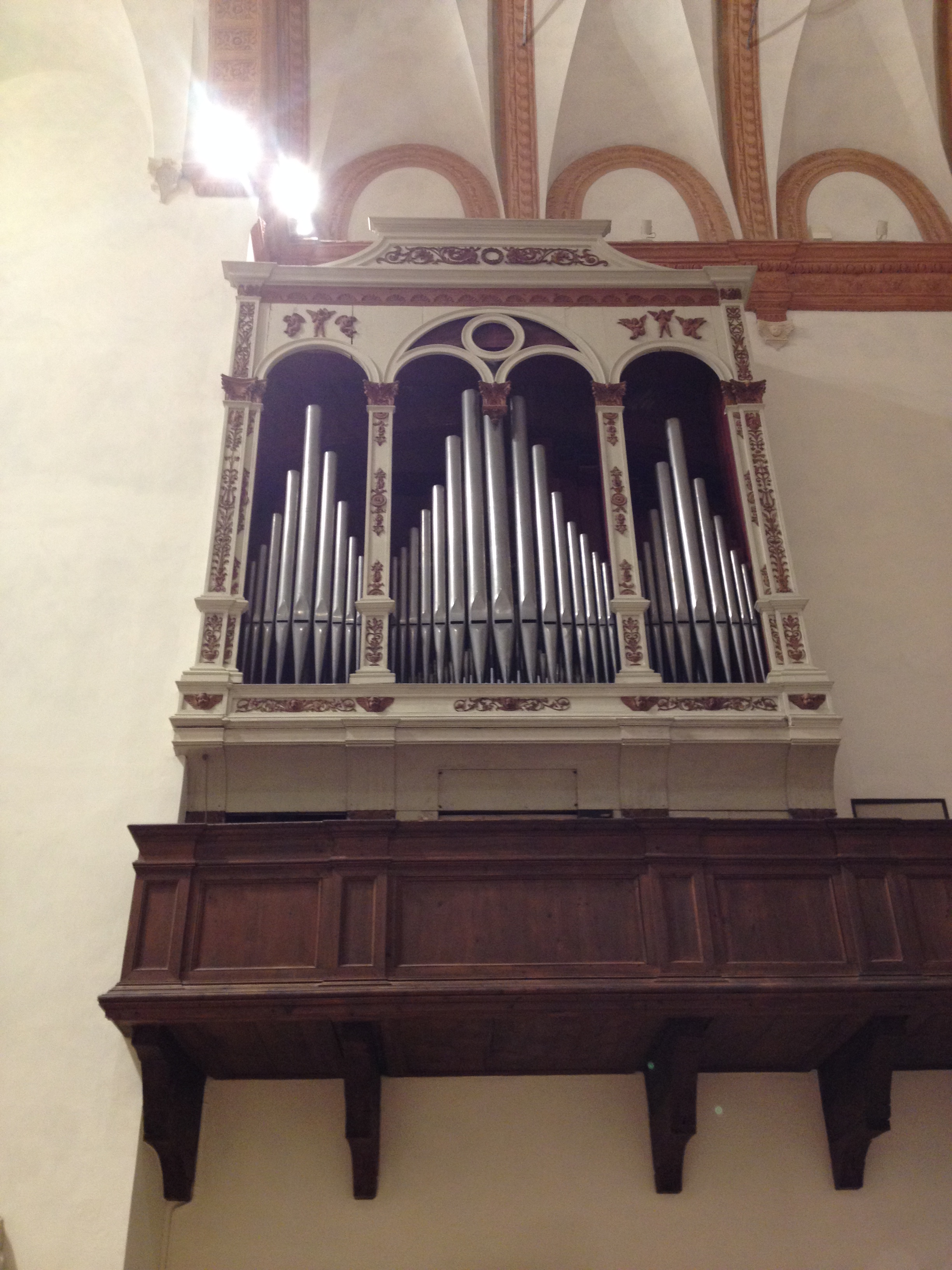 Organ of Santa Corona churc in Vicenza